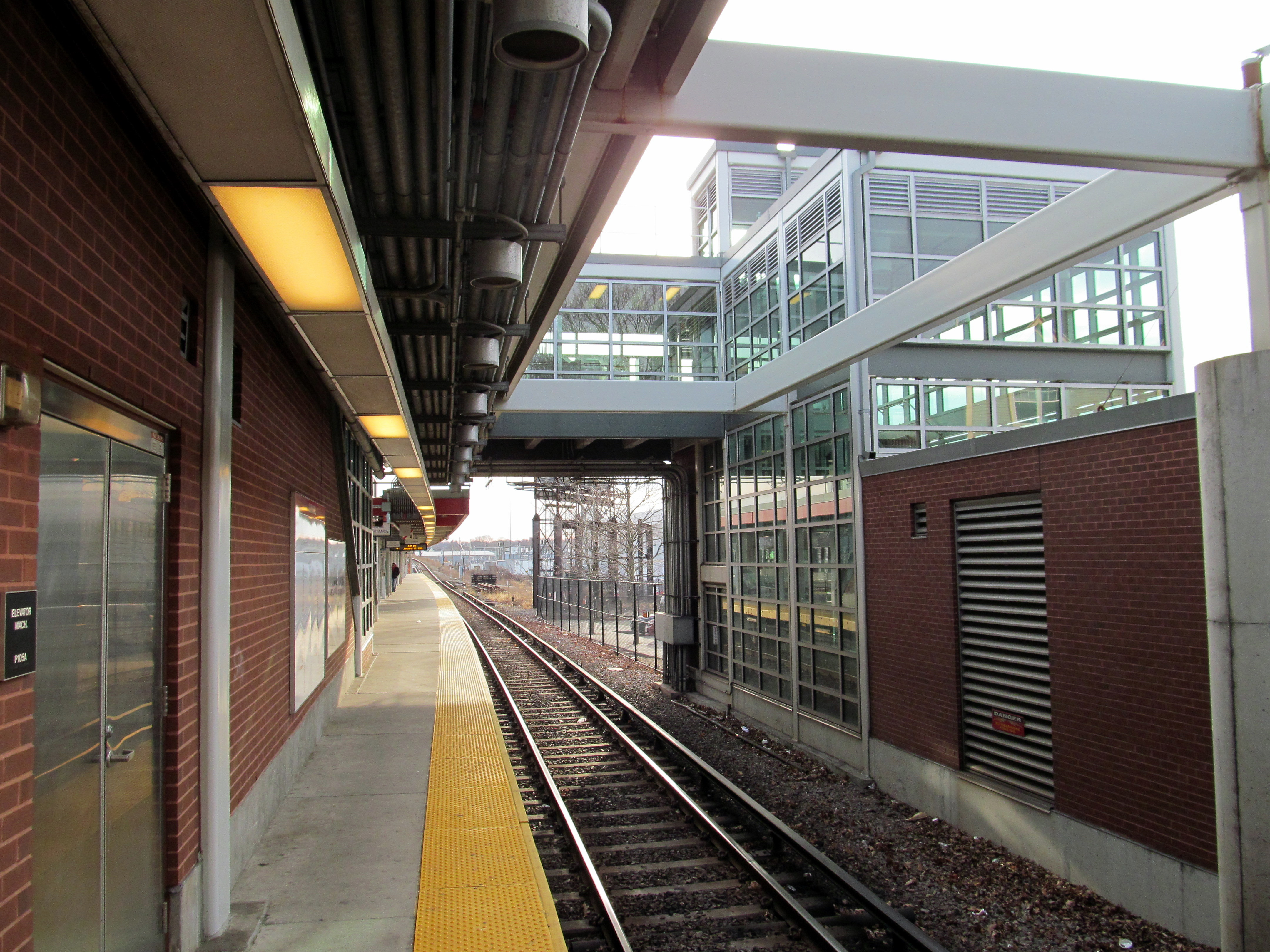 Looking outbound at Savin Hill